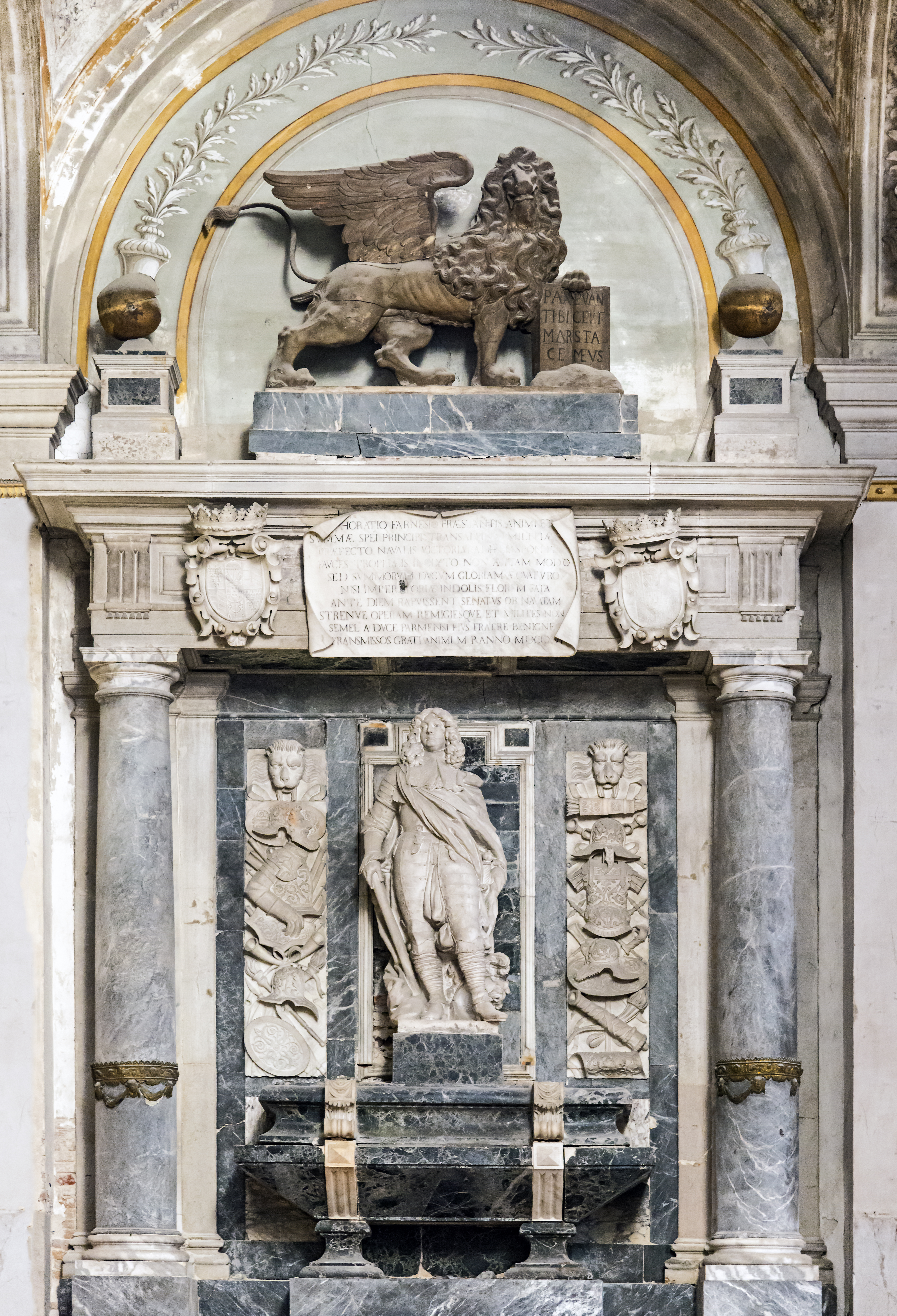 I Gesuiti, Venice left nave - Absidial chapel on the right. Monument to general Orazio Farnese by Baldassarre Longhena.